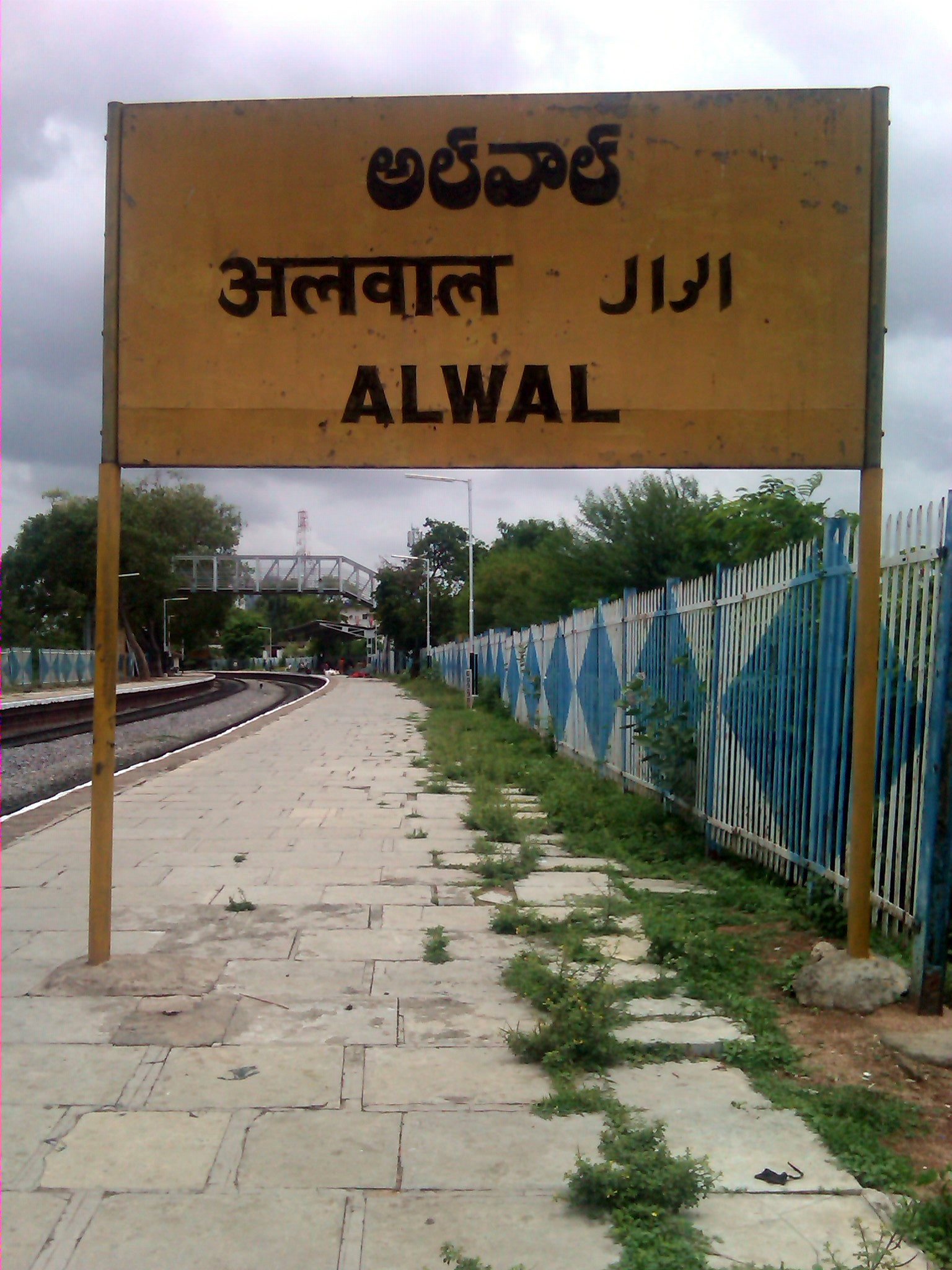 Alwal station board